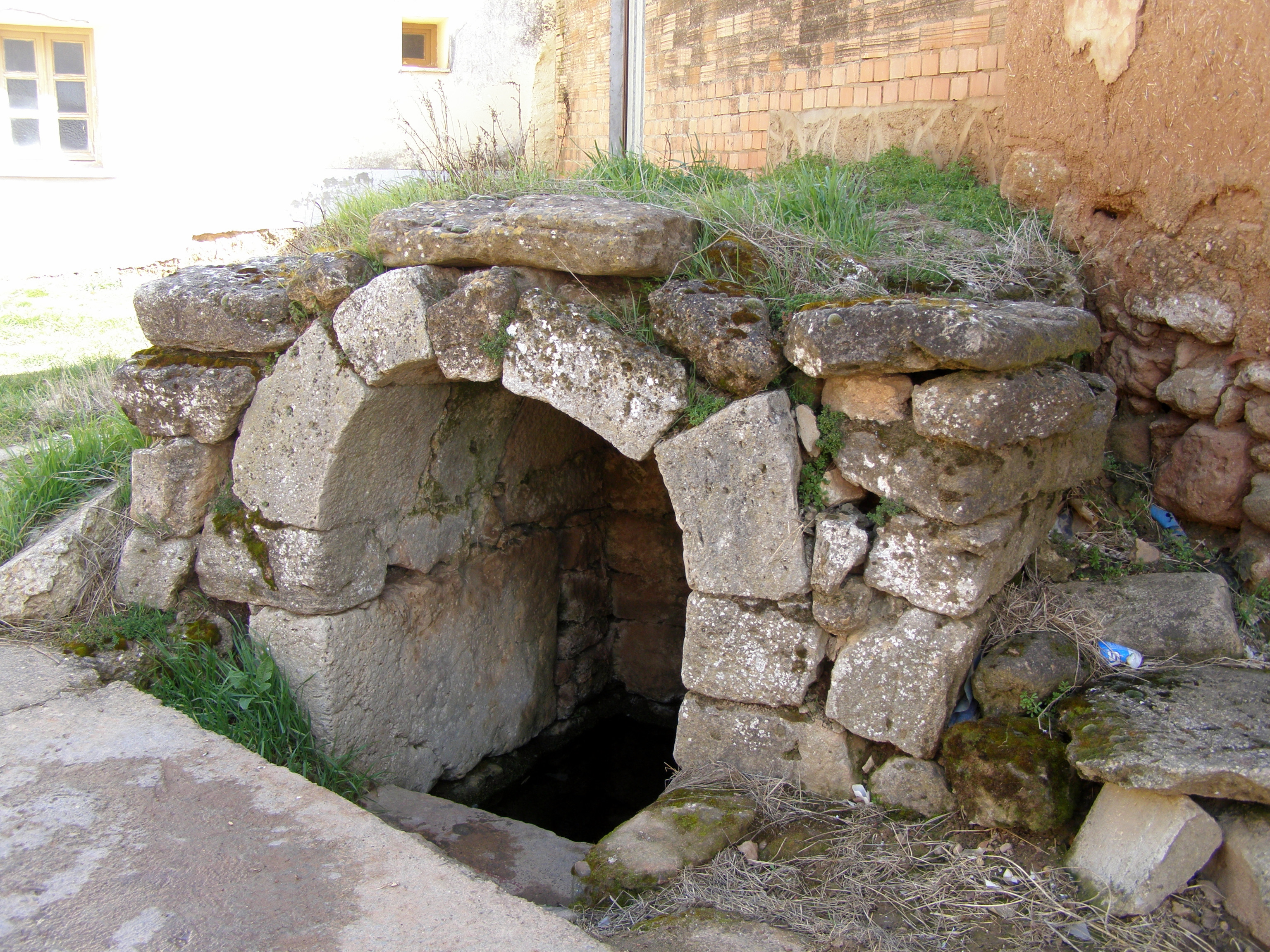 Mediaeval fountain at Santa Maria Ananuñez